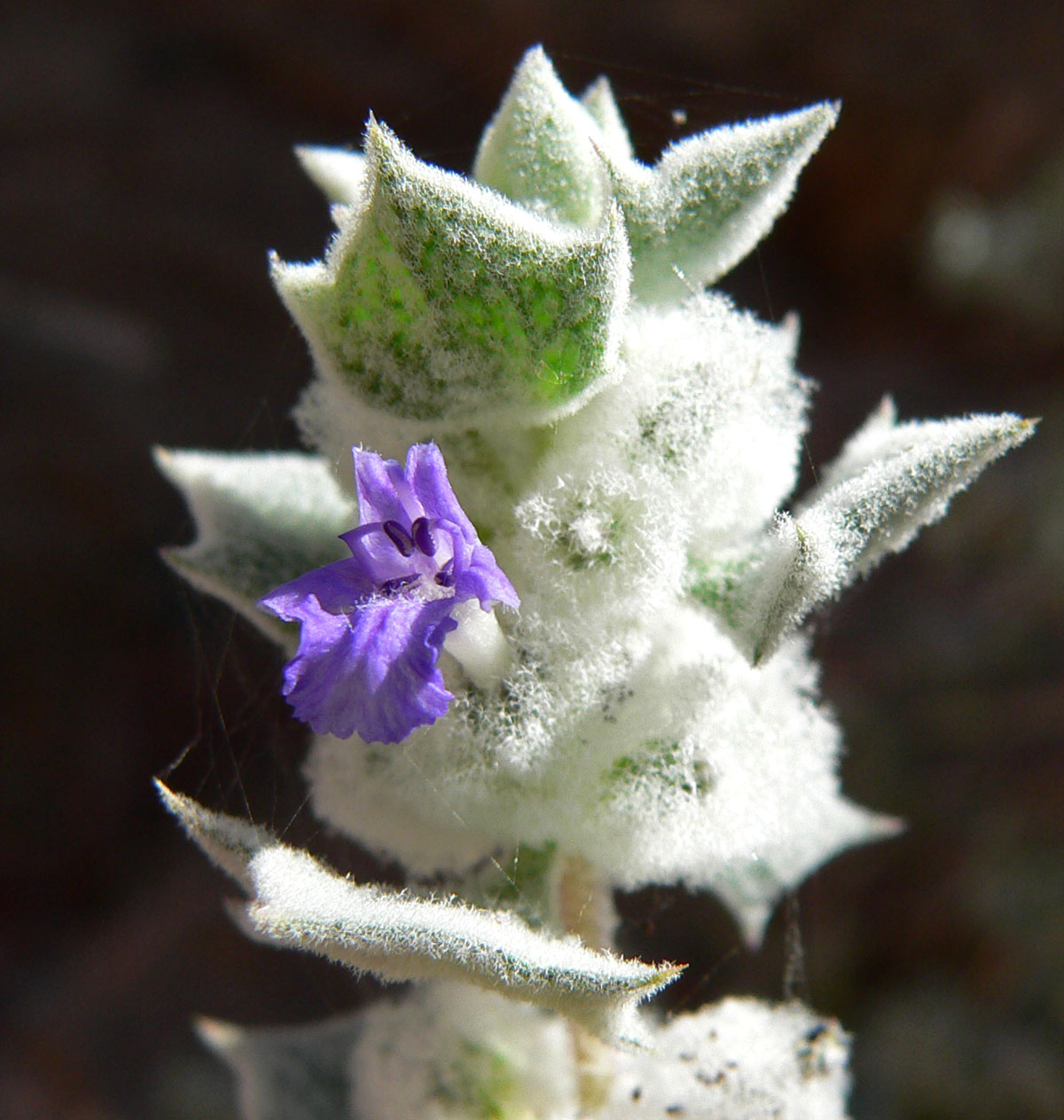 Salvia funerea in Titus Canyon, Death Valley, California